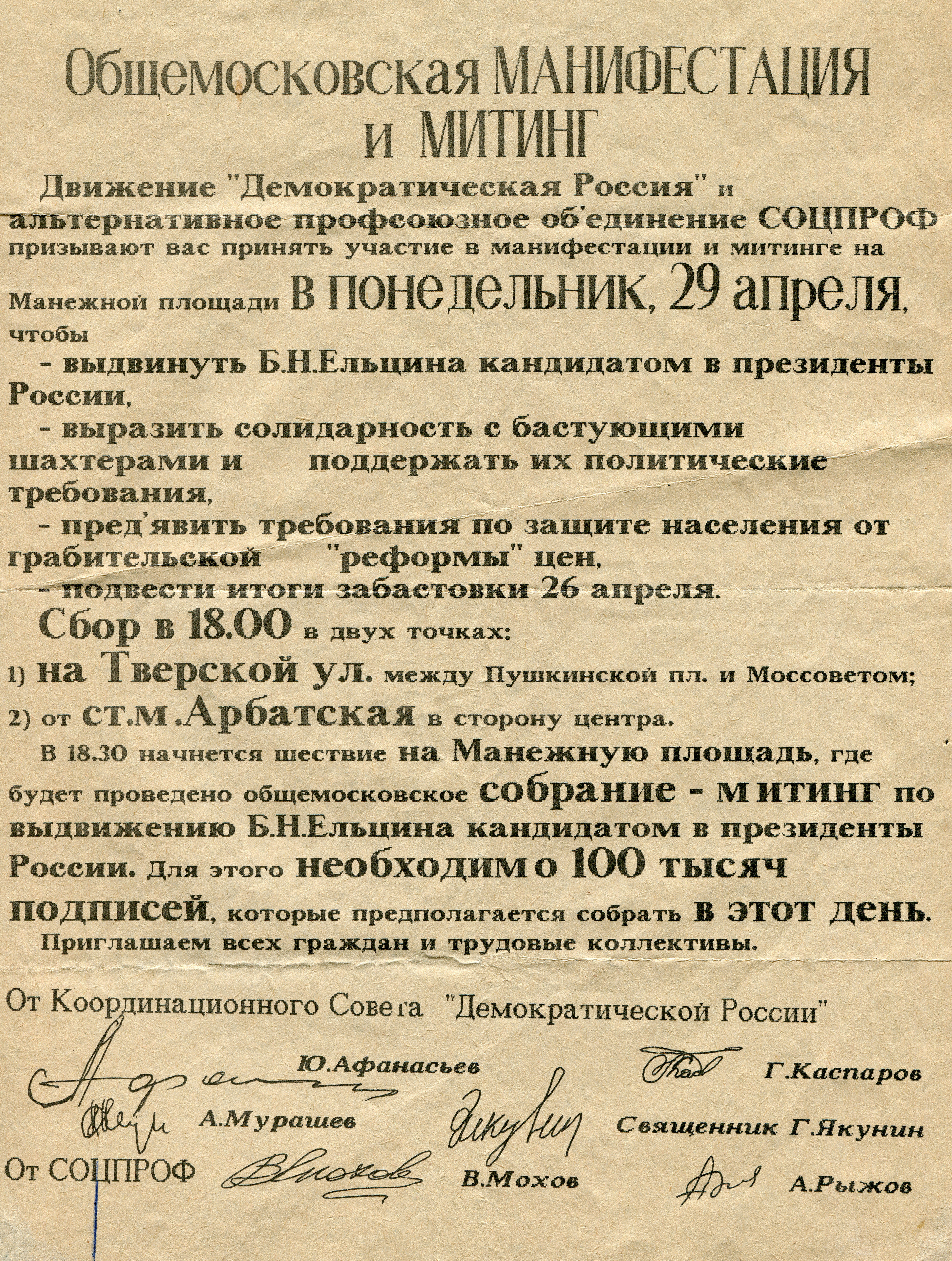 Leaflet of the Democratic Party of Russia